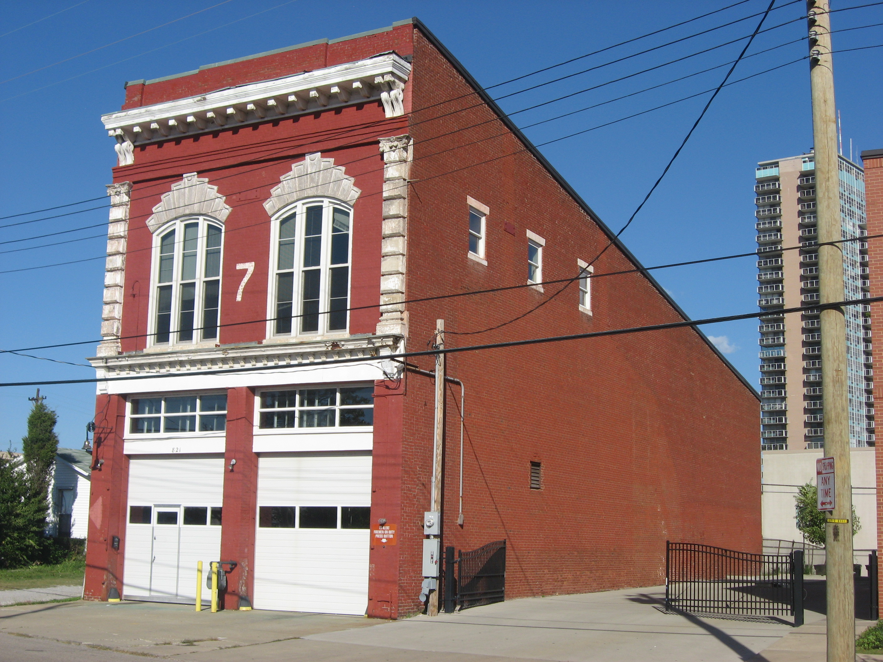 Front and southern side of the Steam Engine Company No. 7, located at 821 S. Sixth Street in Louisville, Kentucky, United States. Built in 1871, it is listed on the National Register of Historic Places.